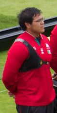 Mexico v France - men's archery team quarterfinal Summer Olympics 2012. L-R: Luis Alvarez Murillo, Juan René Serrano, Eduardo Vélez, Thomas Faucheron, Romain Girouille, Gaël Prevost